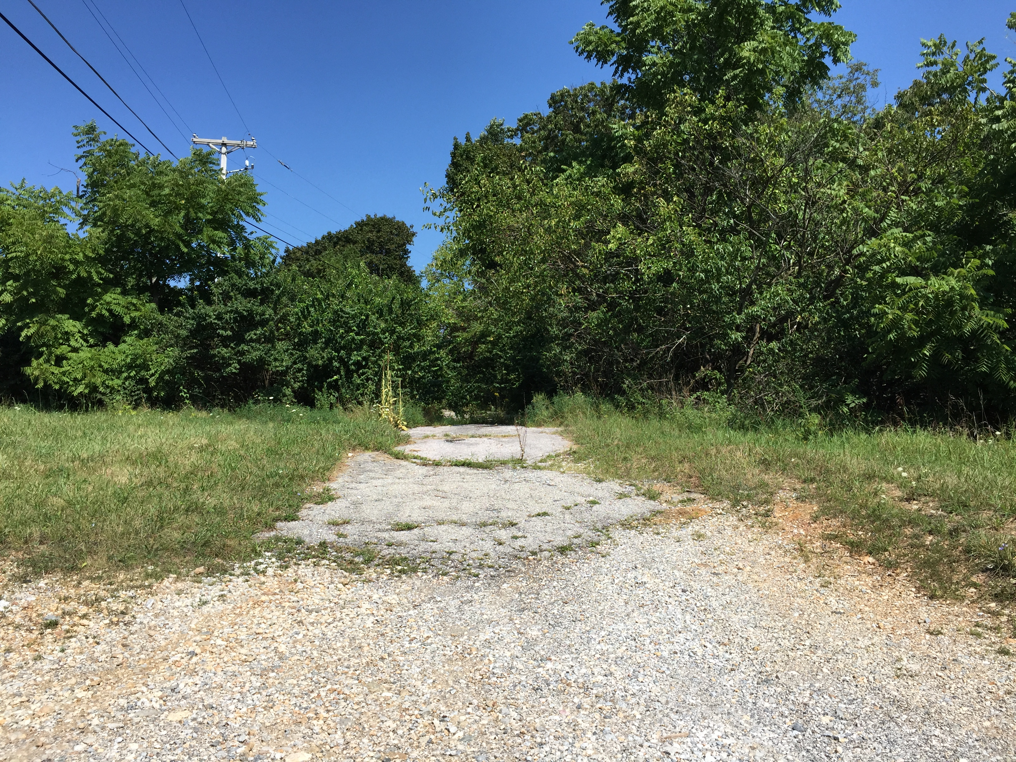 View north along Maryland State Route 668 (Boswells Drive) at Harvey Yingling Road in Wentz, Carroll County, Maryland